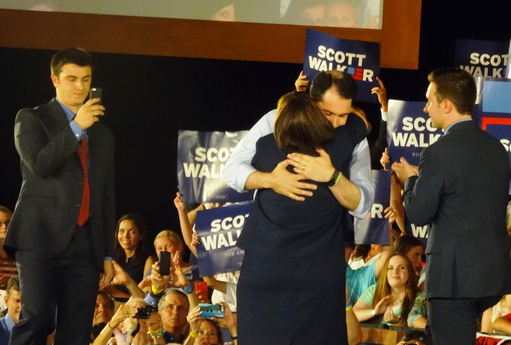 During his 2016 Presidential announcement, Scott Walker hugs his wife, Tonette, as his sons Mat and Alex look on.